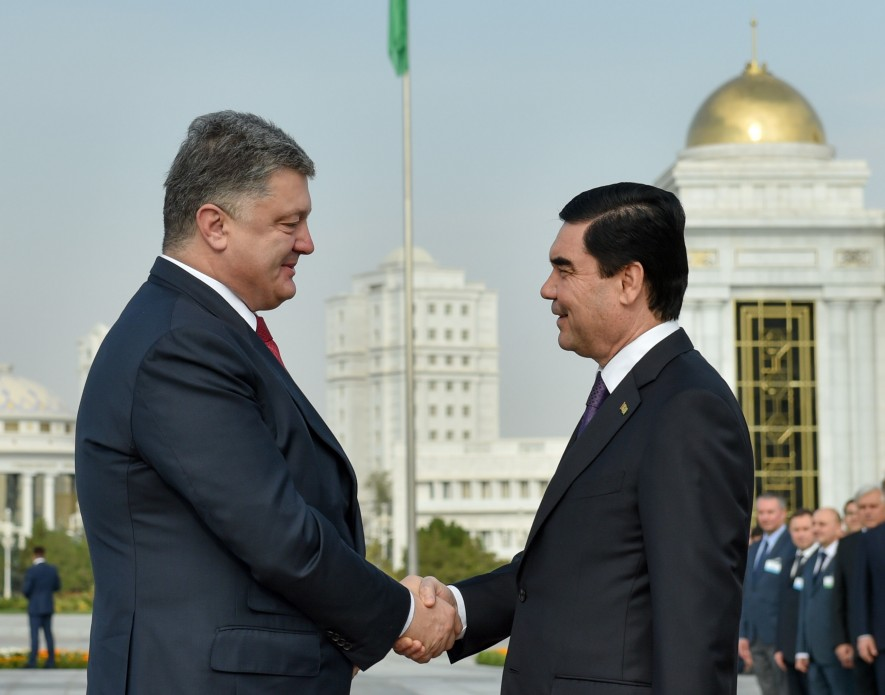 President Petro Poroshenko noted that his visit to Turkmenistan opened new opportunities for Ukrainian companies in the cooperation between the two countries.